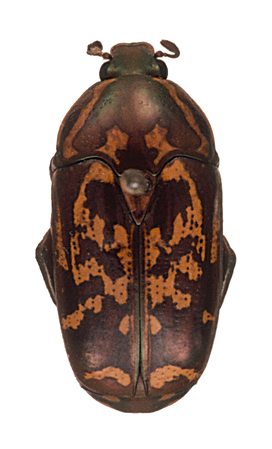 Type of the cetonid Poecilopharis poggi flyensis